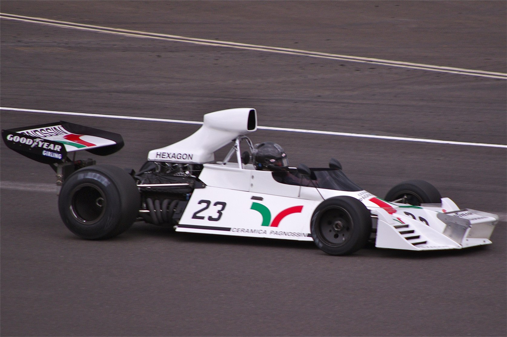 The Brabham BT42 de 1973 at the Silverstone Classic 2011